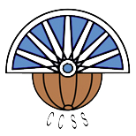 Logo of Club Ciclista San Sebastián.